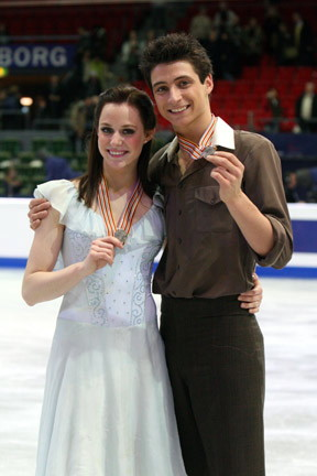 Tessa Virtue & Scott Moir during the ice dancing medals ceremony at the 2008 World Championships.